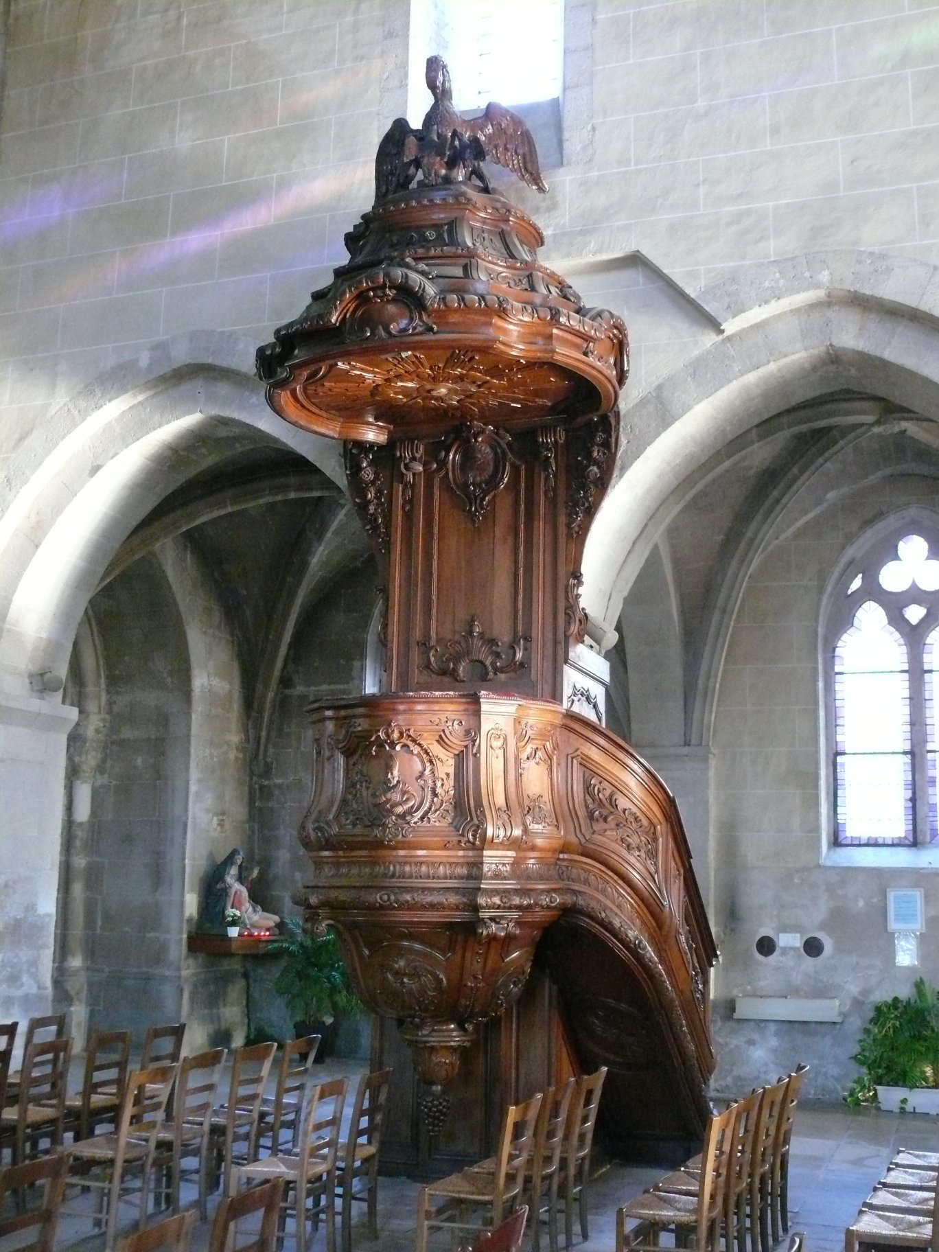 Saint-Denis' church of Crépy-en-Valois (Oise, Picardie, France).